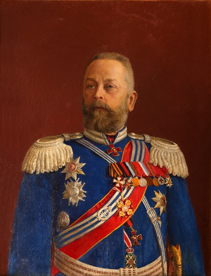 Samsonov Alexander Vasilevich